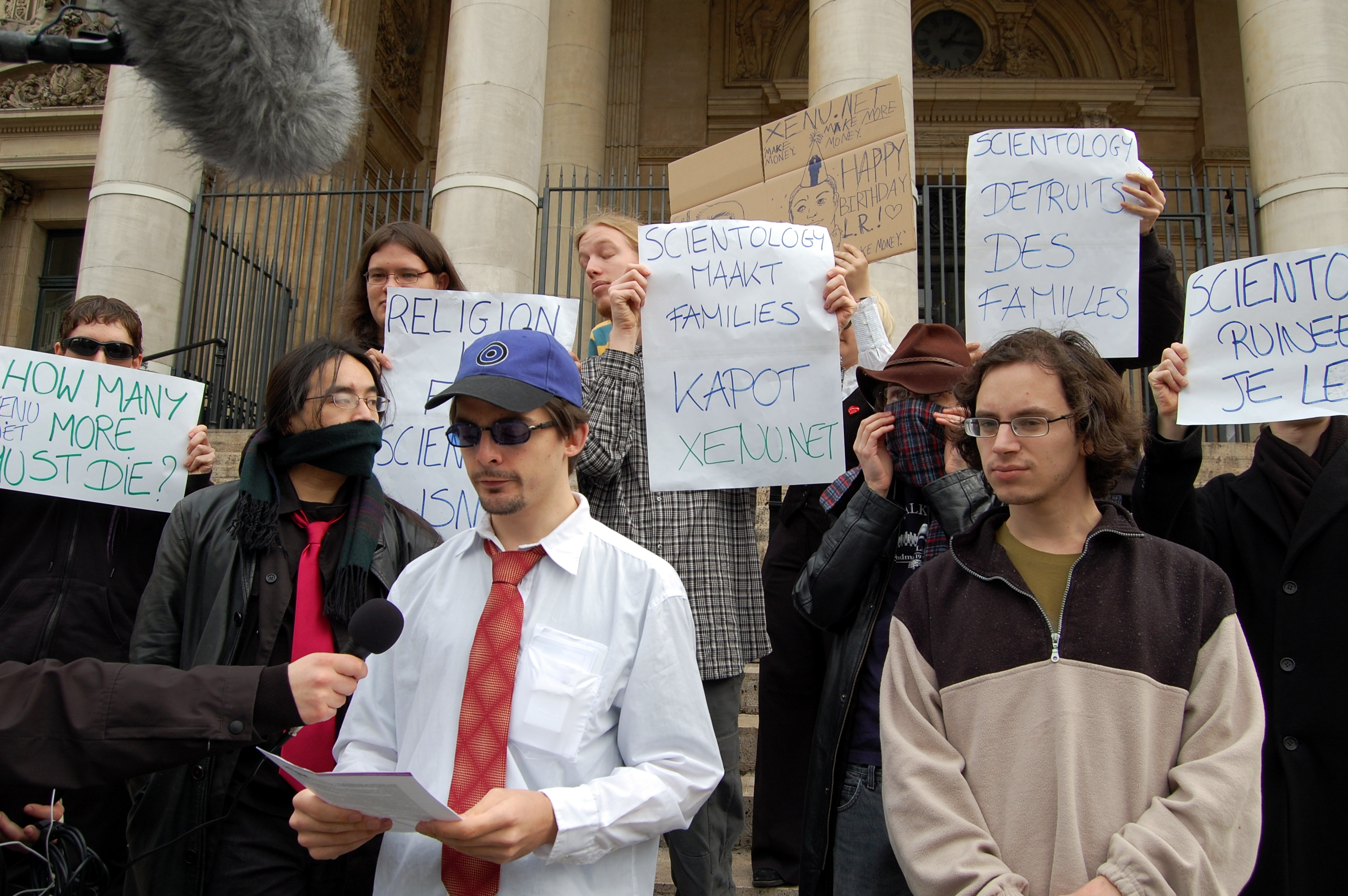 Image from the Brussels "Anonymous" protests against Scientology at the Brussels Stock Exchange.